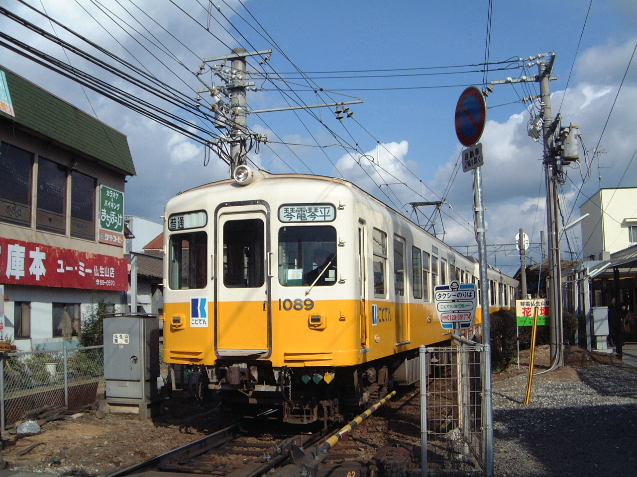 This photograph was taken at Busyouzan,Japan.